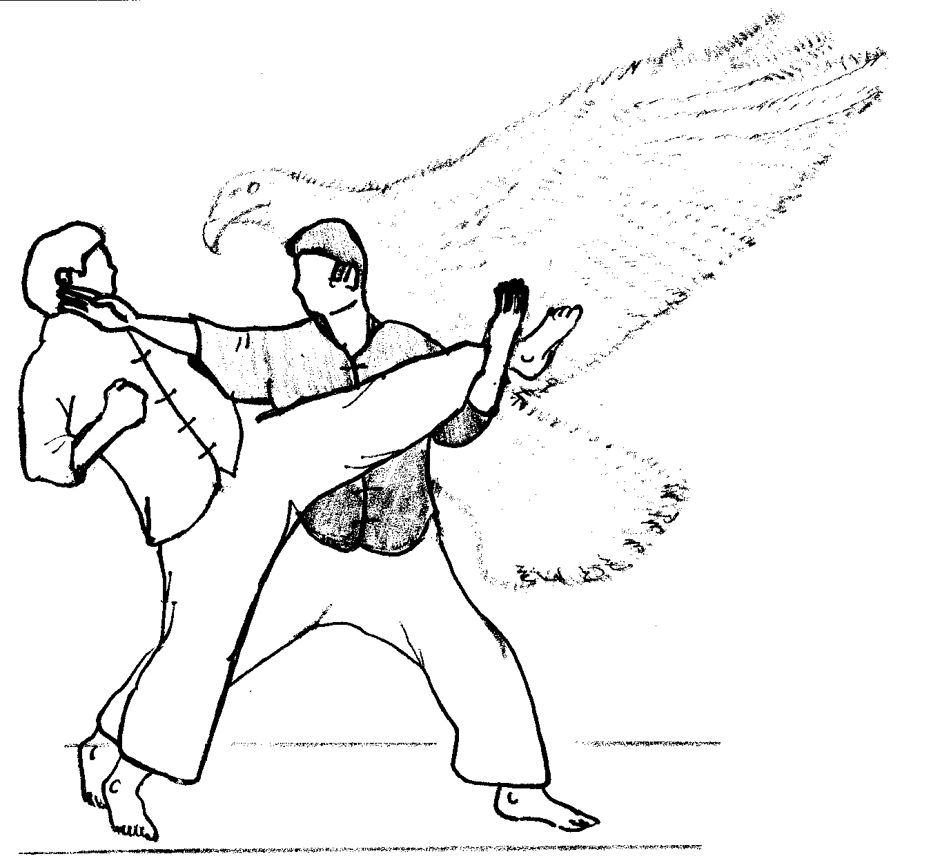 Author : Alain DELMAS 1999